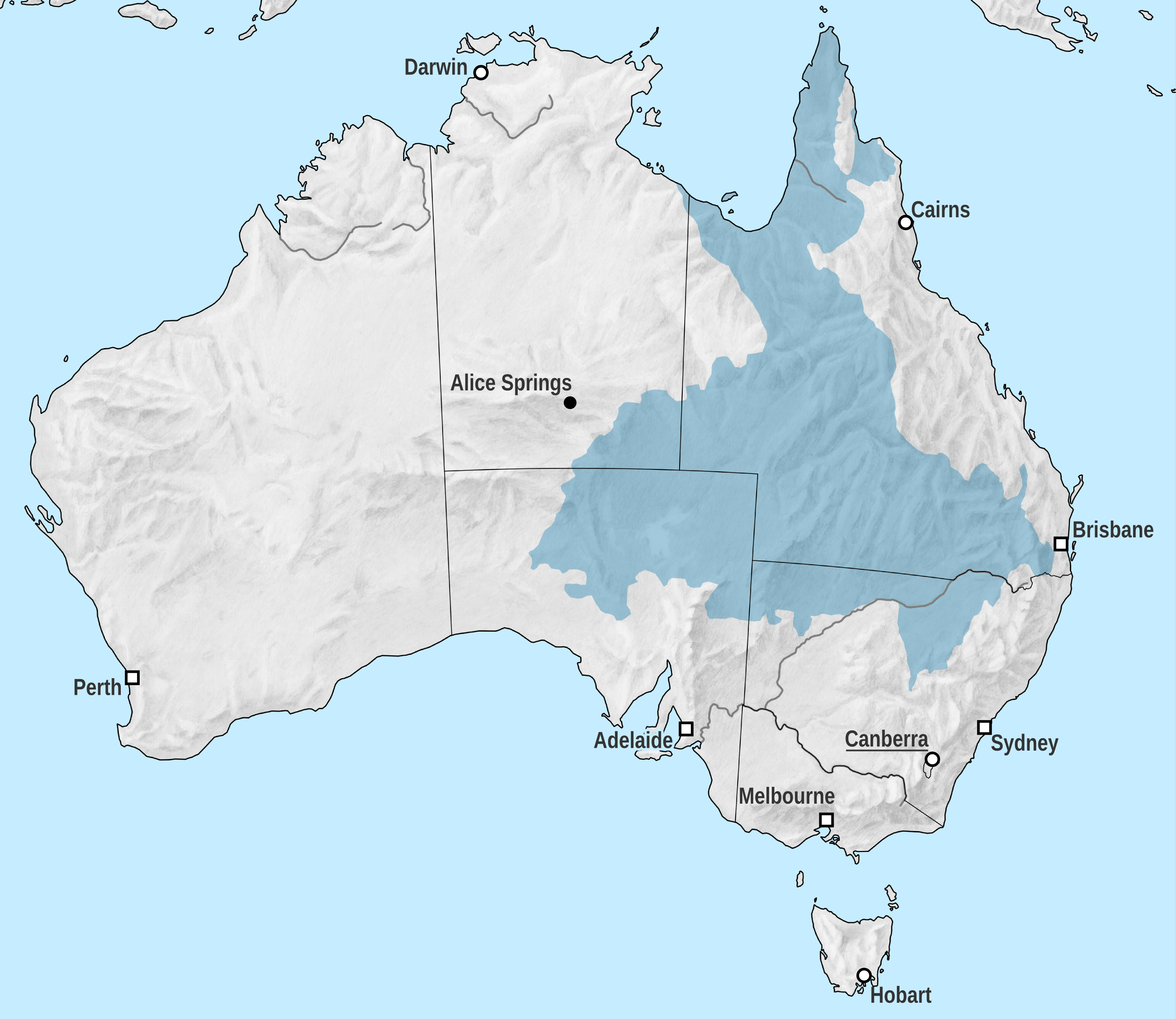 Map of the Great Artesian Basin in Australia. Map projection: Lambert conformal conic, standard latitudes 18°S and 36°S, centred on 136°E and 24°S Map extents: -2200km to 2000km east-west, -3000km to 900km north-south